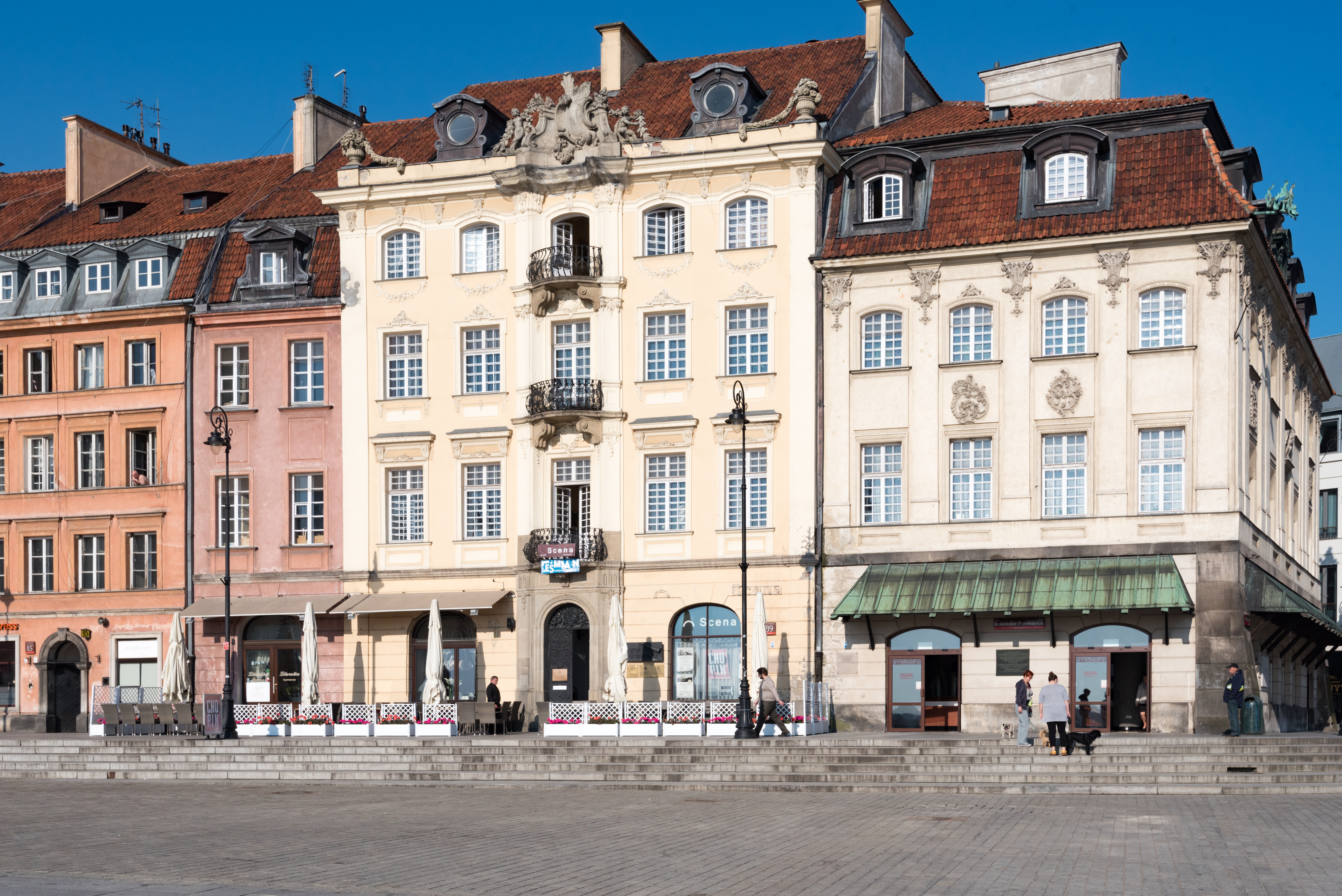 Warszawa, ul. Krakowskie Przedmieście 87, 89